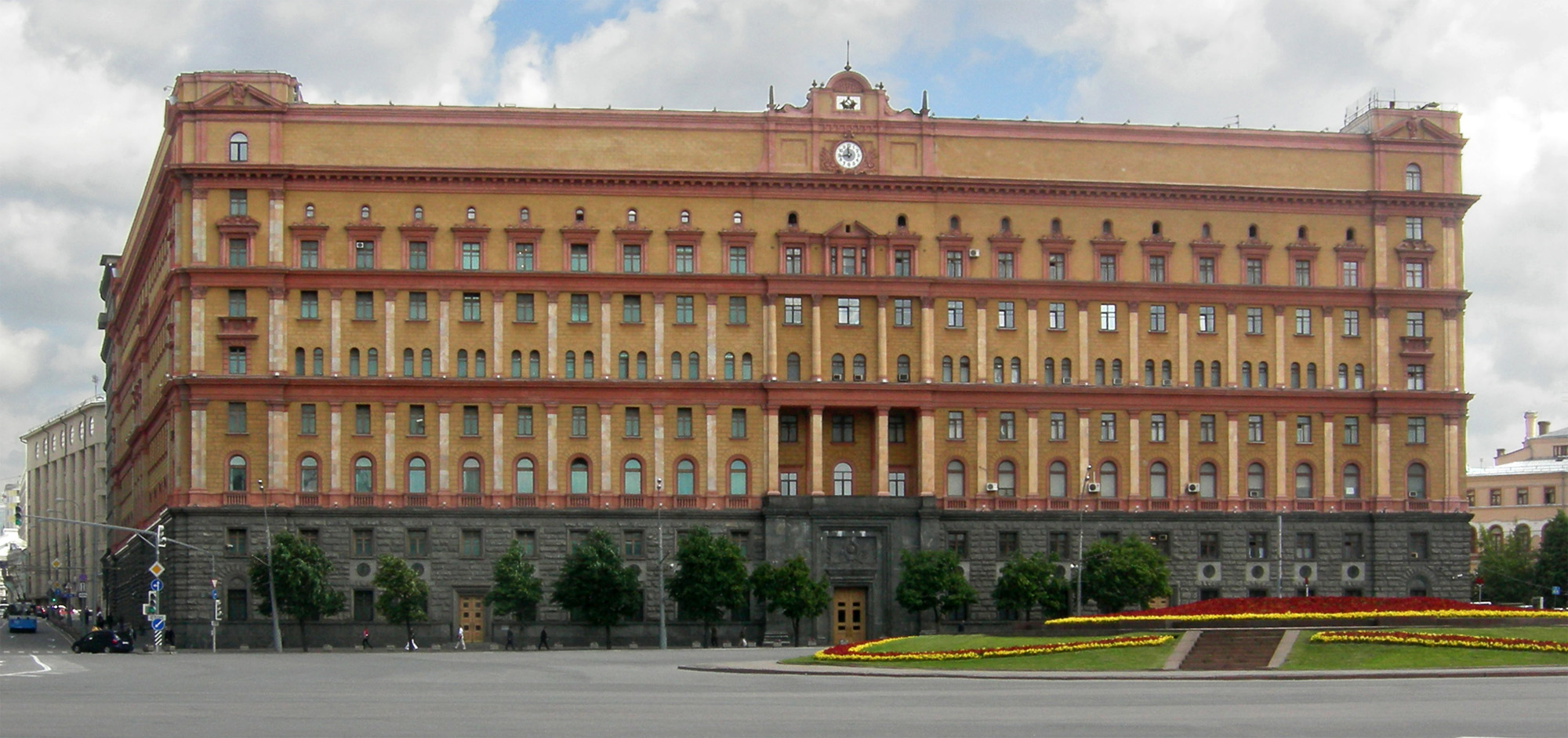 Lubyanka former KGB Headquarters in Moscow (June 2009)